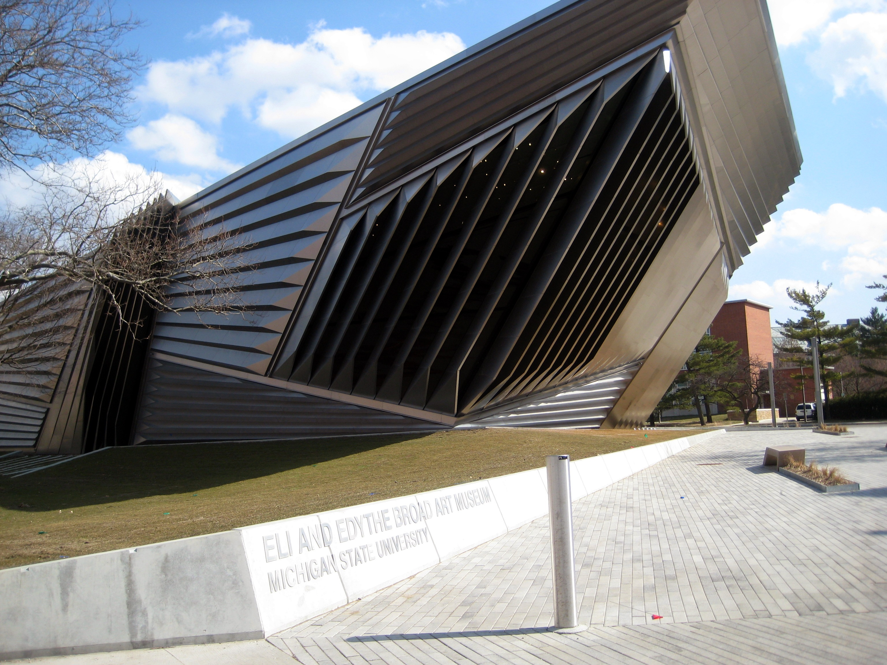 MSU Eli and Edythe Broad Art Museum — Michigan State University, East Lansing, Michigan. View from Grand River Avenue facing southeast